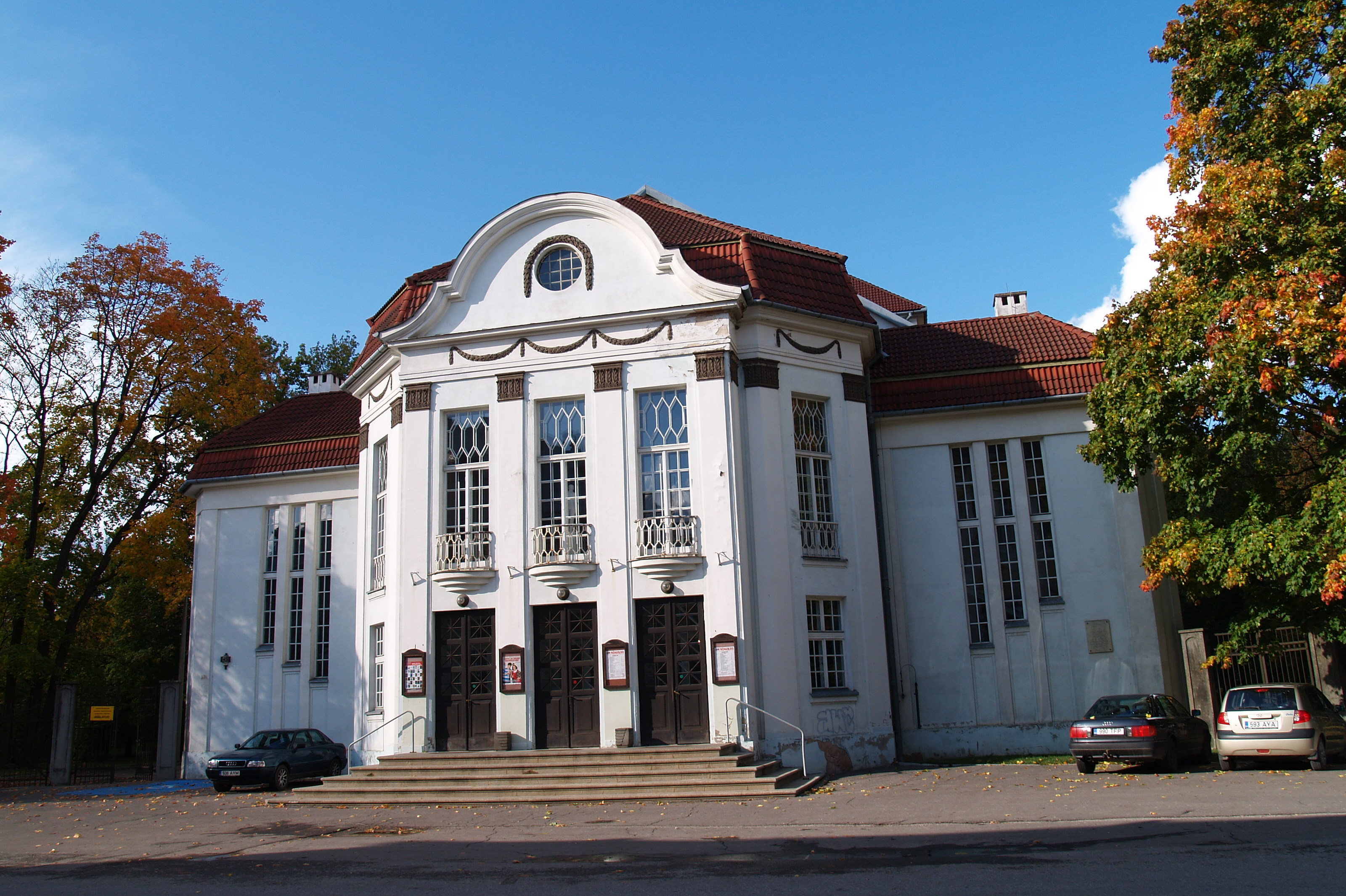 Vanemuise theater, small house